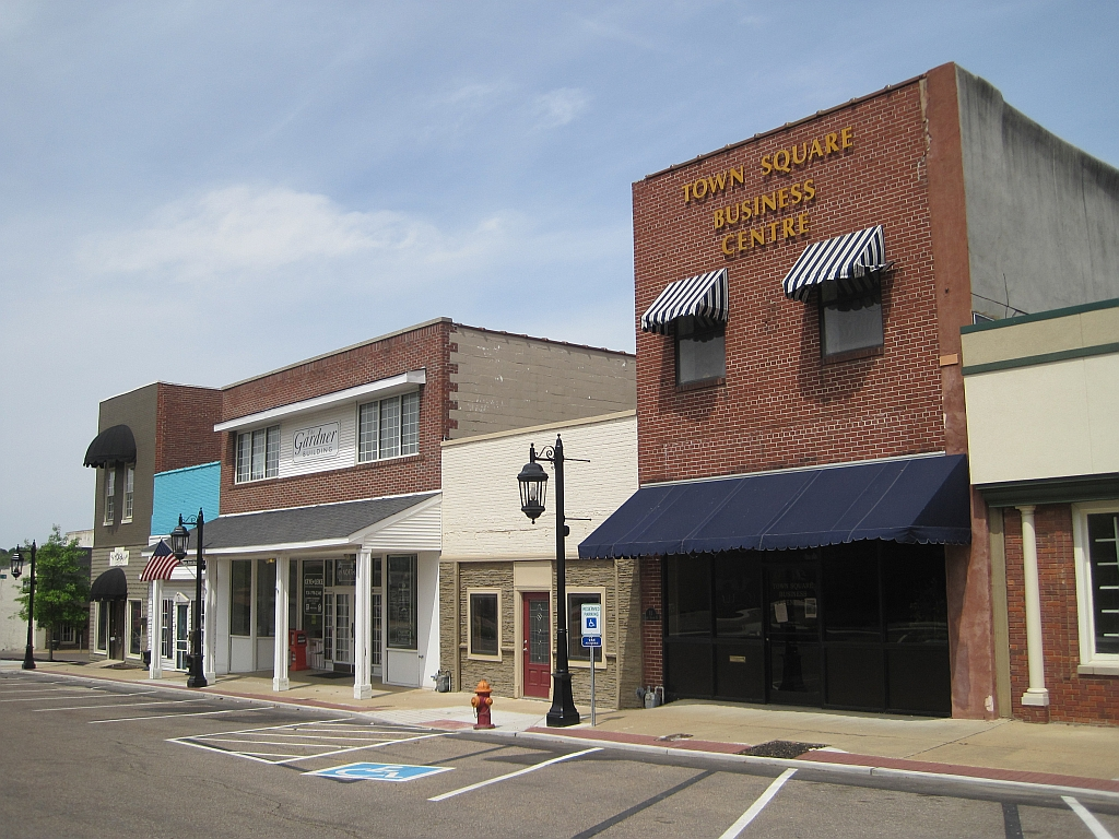 Brownsville, Tennessee Downtown